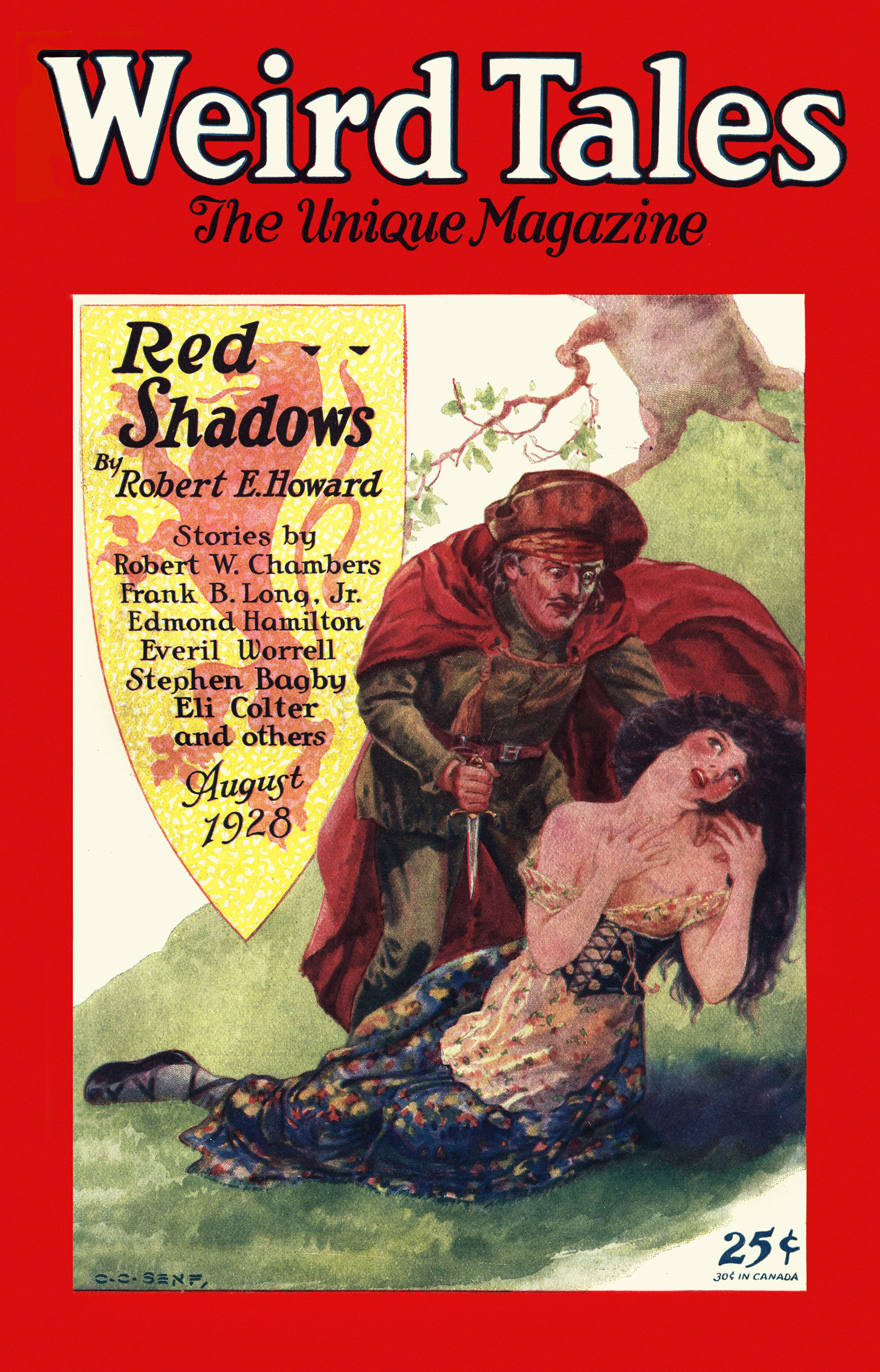 Cover of the pulp magazine Weird Tales (August 1928, vol. 12, no. 2) featuring Red Shadows by Robert E. Howard. Cover art by C. C. Senf, depicts a scene from Red Shadows in which villain 'Le Loup' stands over a woman whom he intends to ravish and slay.